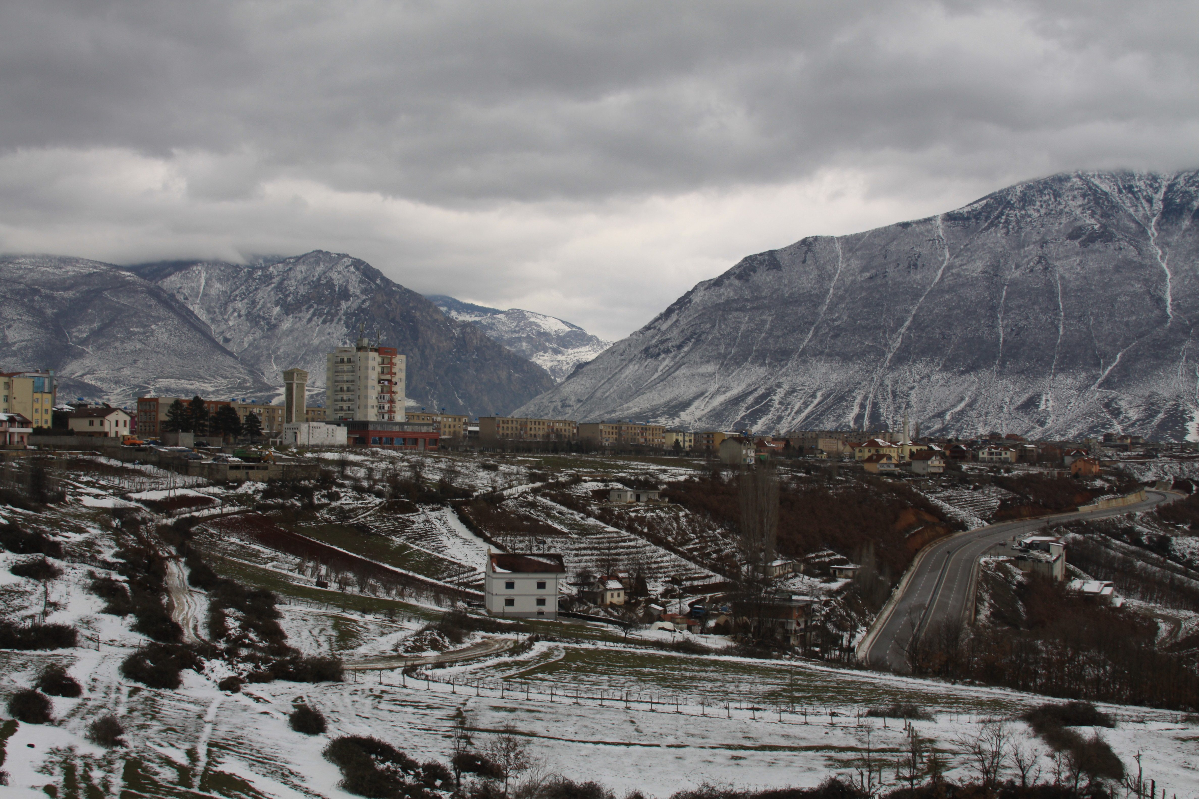 View of Kukes town from the Toursit Hotel